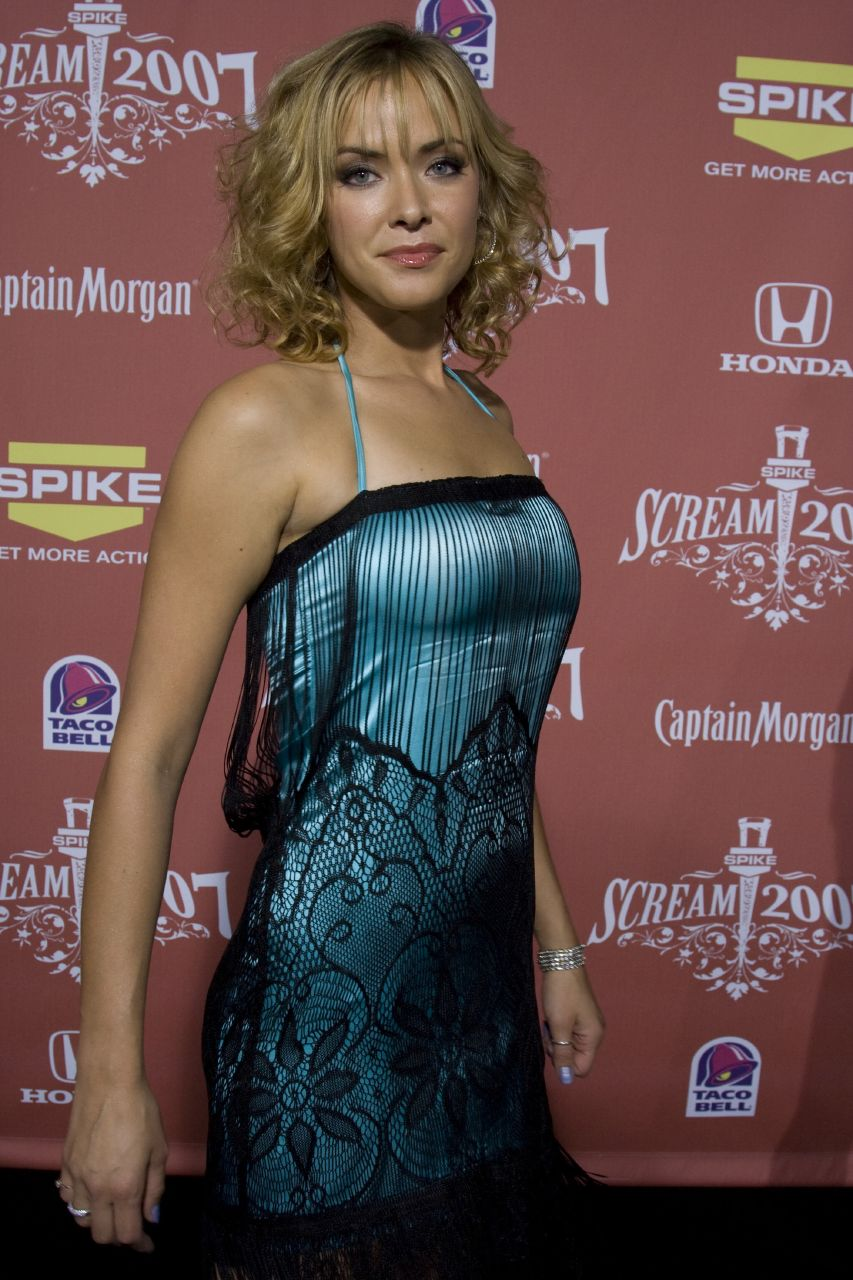 Norwegian-American actress and model Kristanna Loken. Taken at the 2007 Scream Awards.